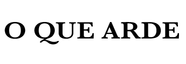 Logo of O que arde film.